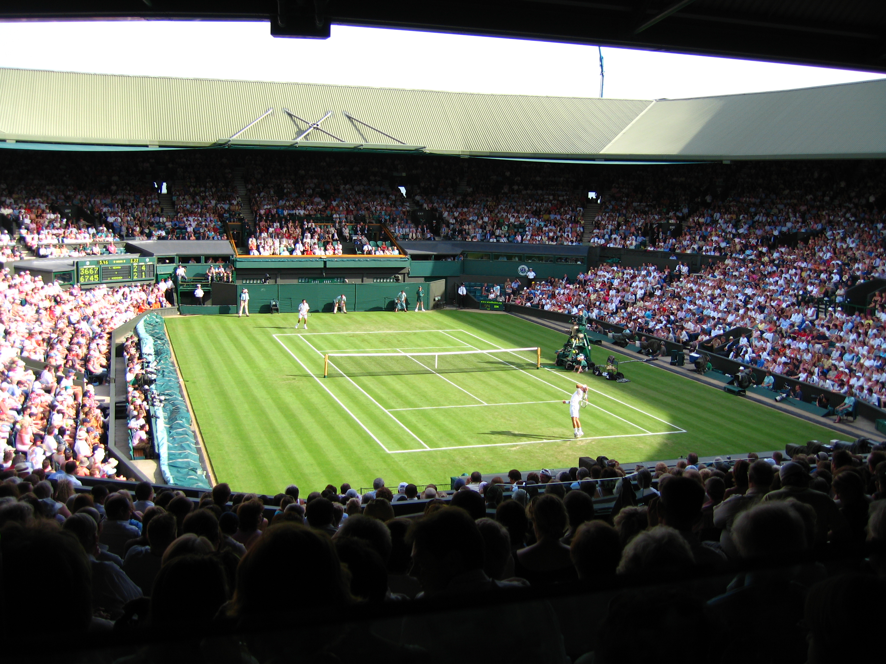 Tim Henman vs Jarkko Nieminen on Centre Court at Wimbledon